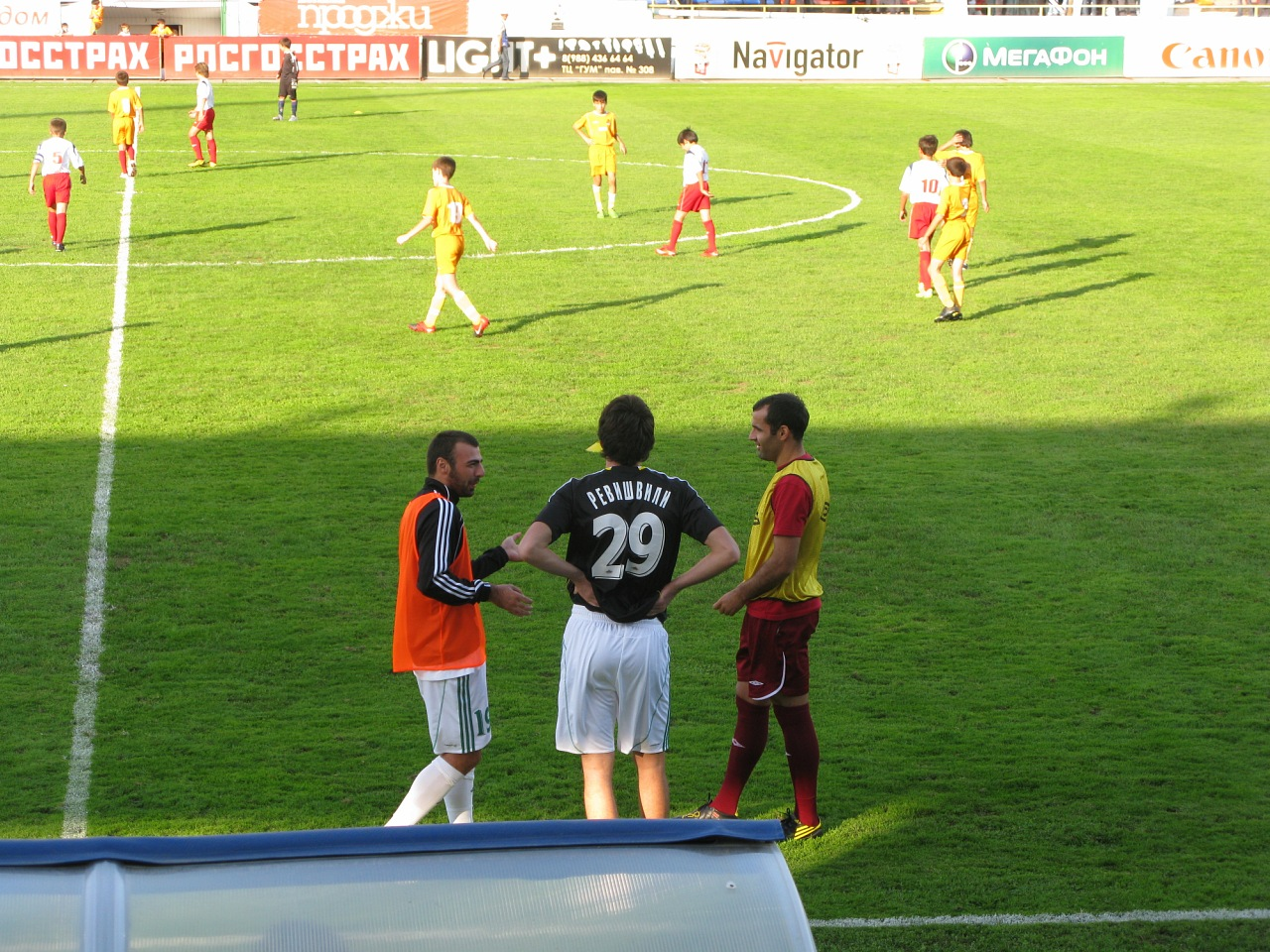 Georgian footballers